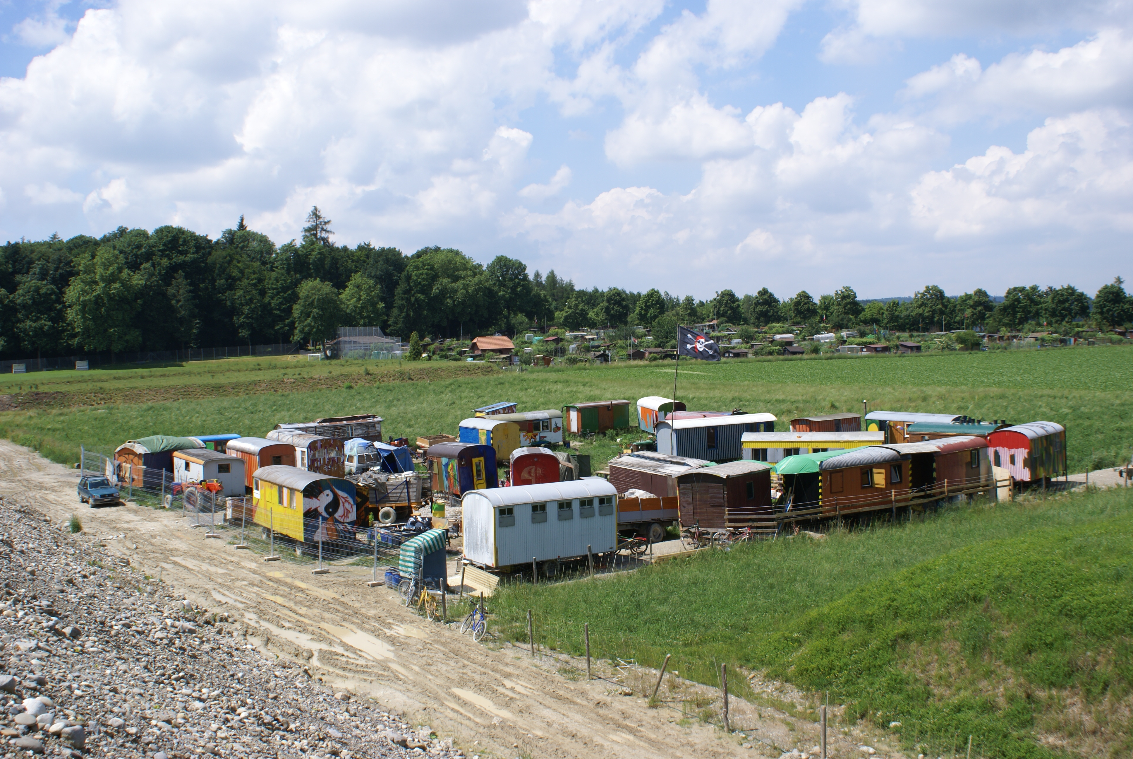 Trailer camp of the „Stadtnomaden“/„Verein Alternative“ alternative living community, Neufeld neighbourhood, Berne, Switzerland.